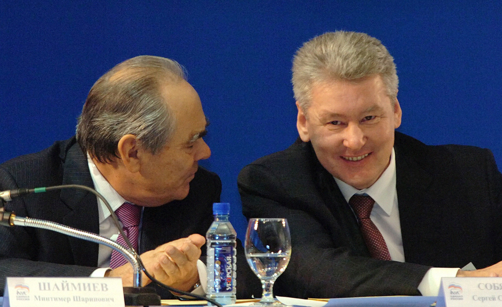 “Mintimer Shaimiev and Sergei Sobyanin attend United Russia 7th congress”. Tatarstan's President Mintimer Shaimiev, left, and Sergei Sobyanin, chief of staff of the federal presidential executive office, talk during the 7th congress of the United Russia political party in Yekaterinburg.